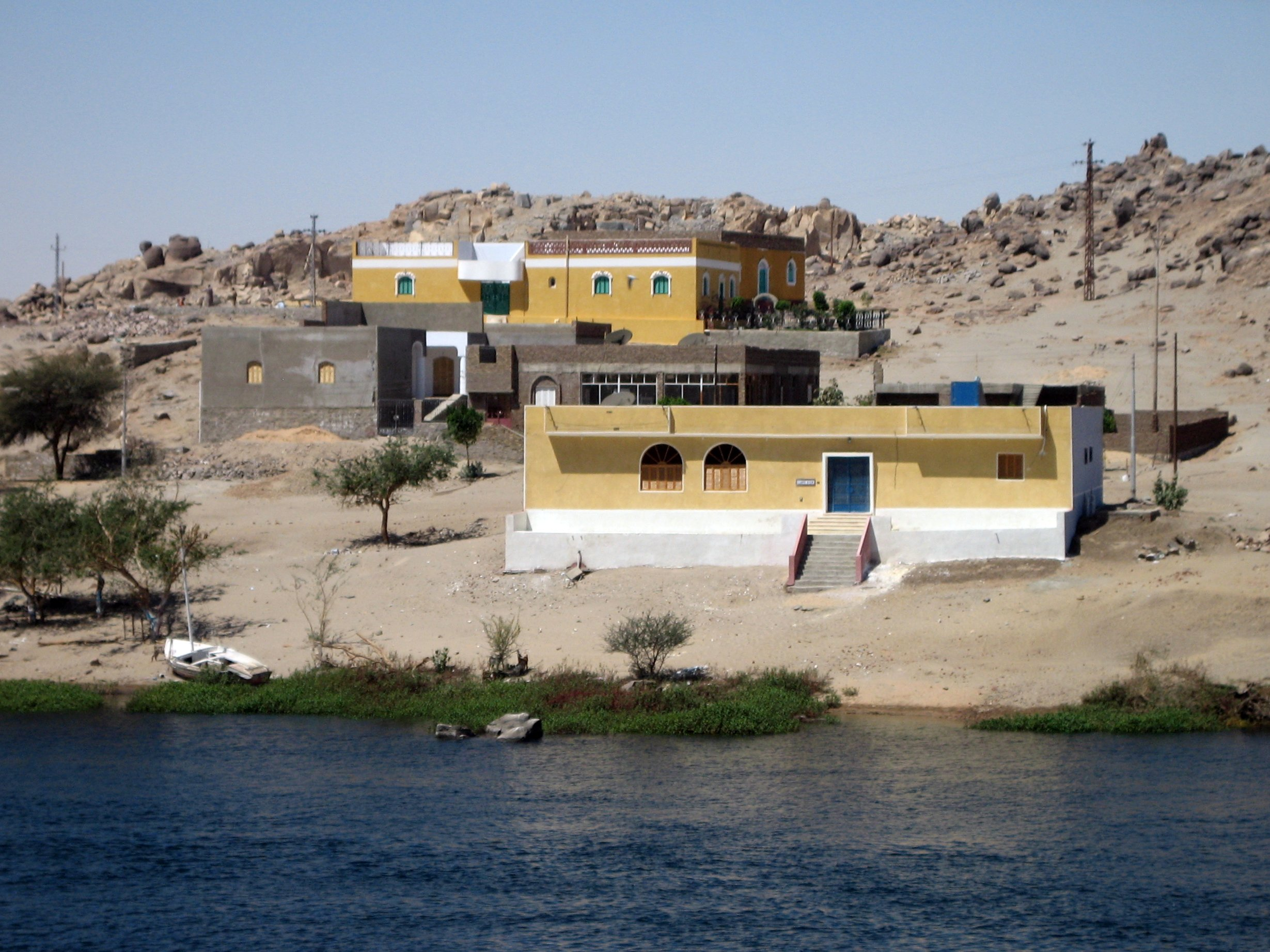 on the Nile